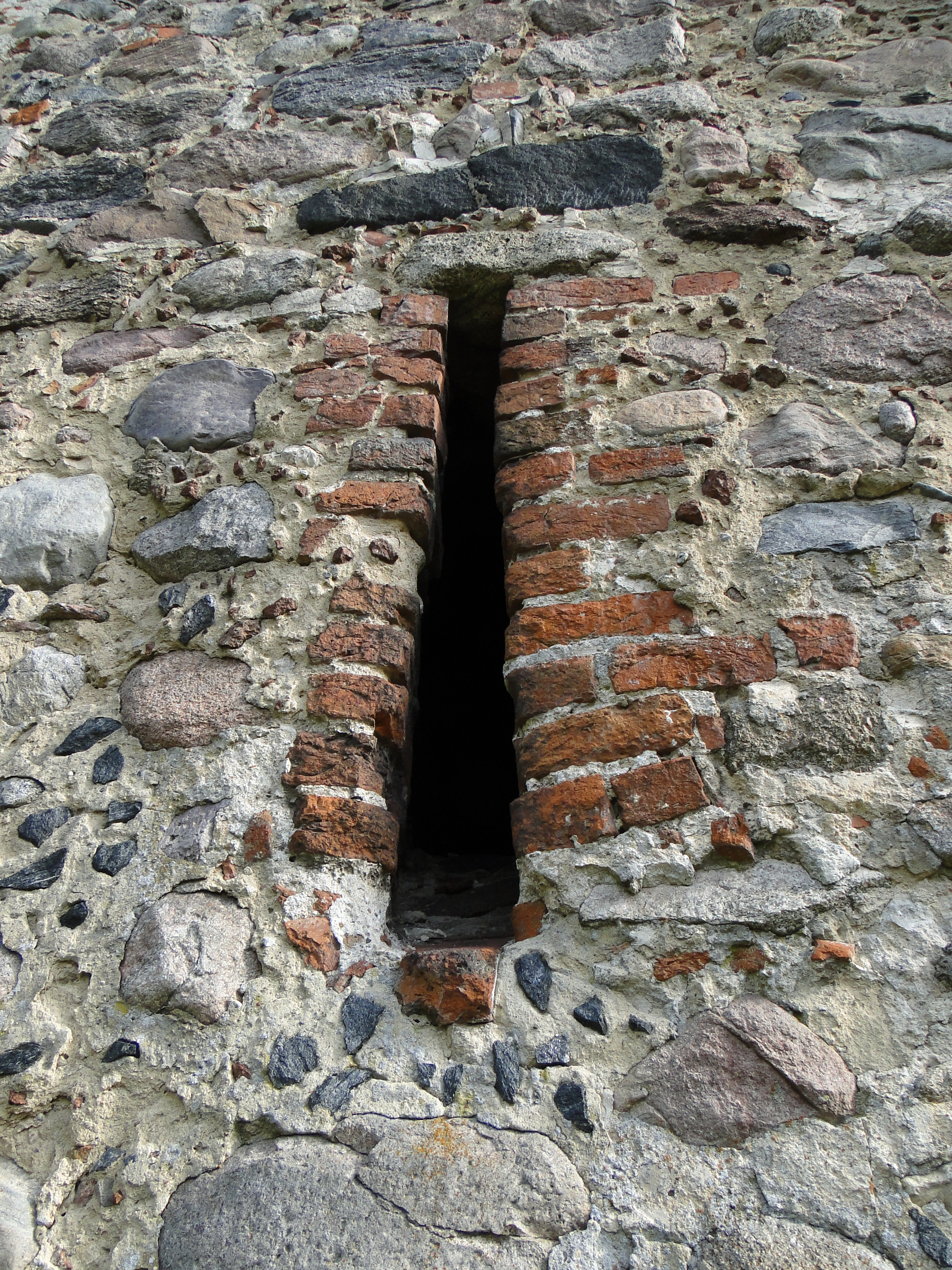 Church in Wessin, district Ludwigslust-Parchim, Mecklenburg-Vorpommern, Germany